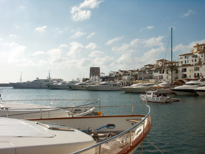 Puerto Banús on Marbella